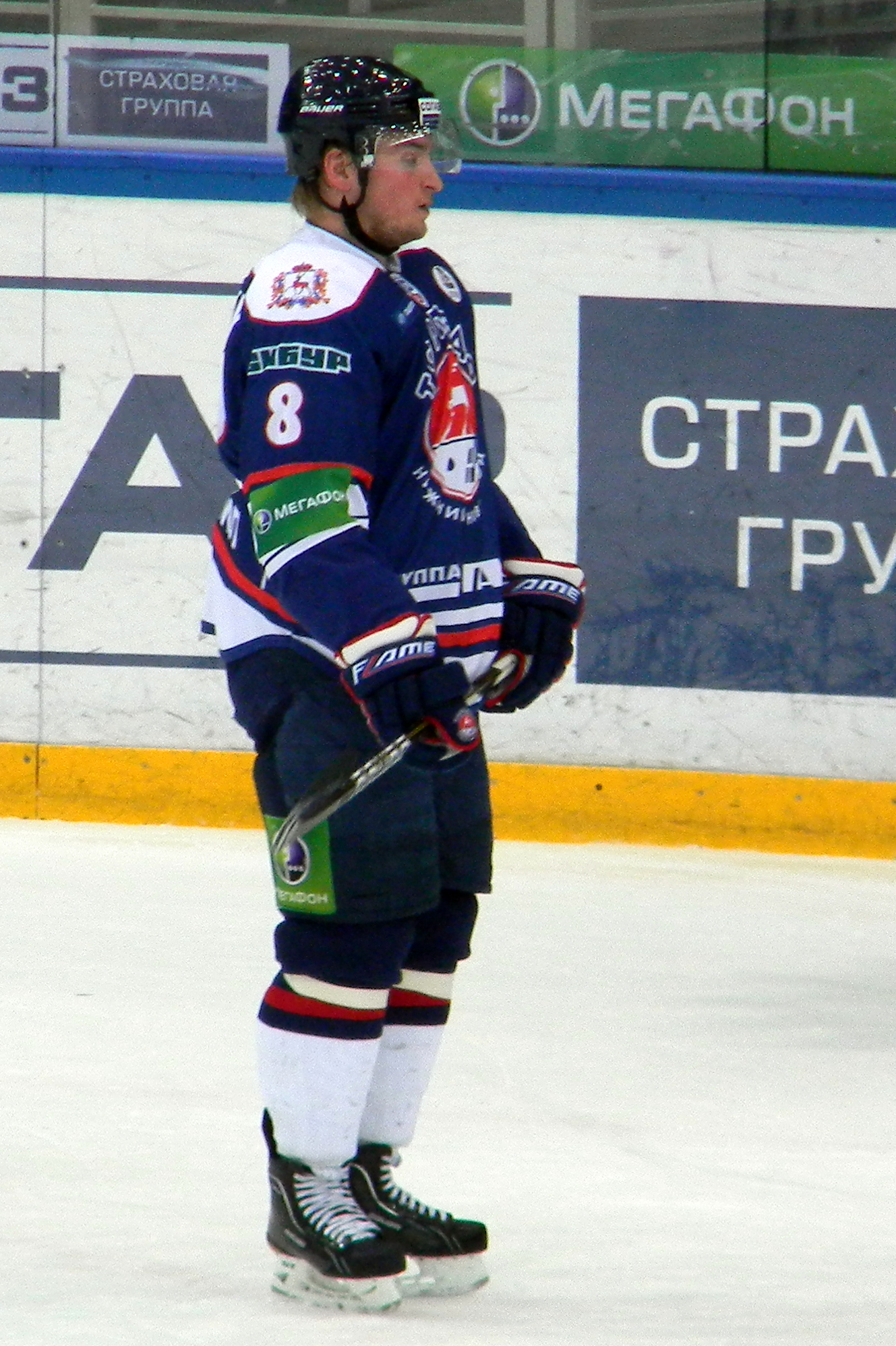 Semyon Valuysky, a Russian ice hockey player from Torpedo Nizhny Novgorod